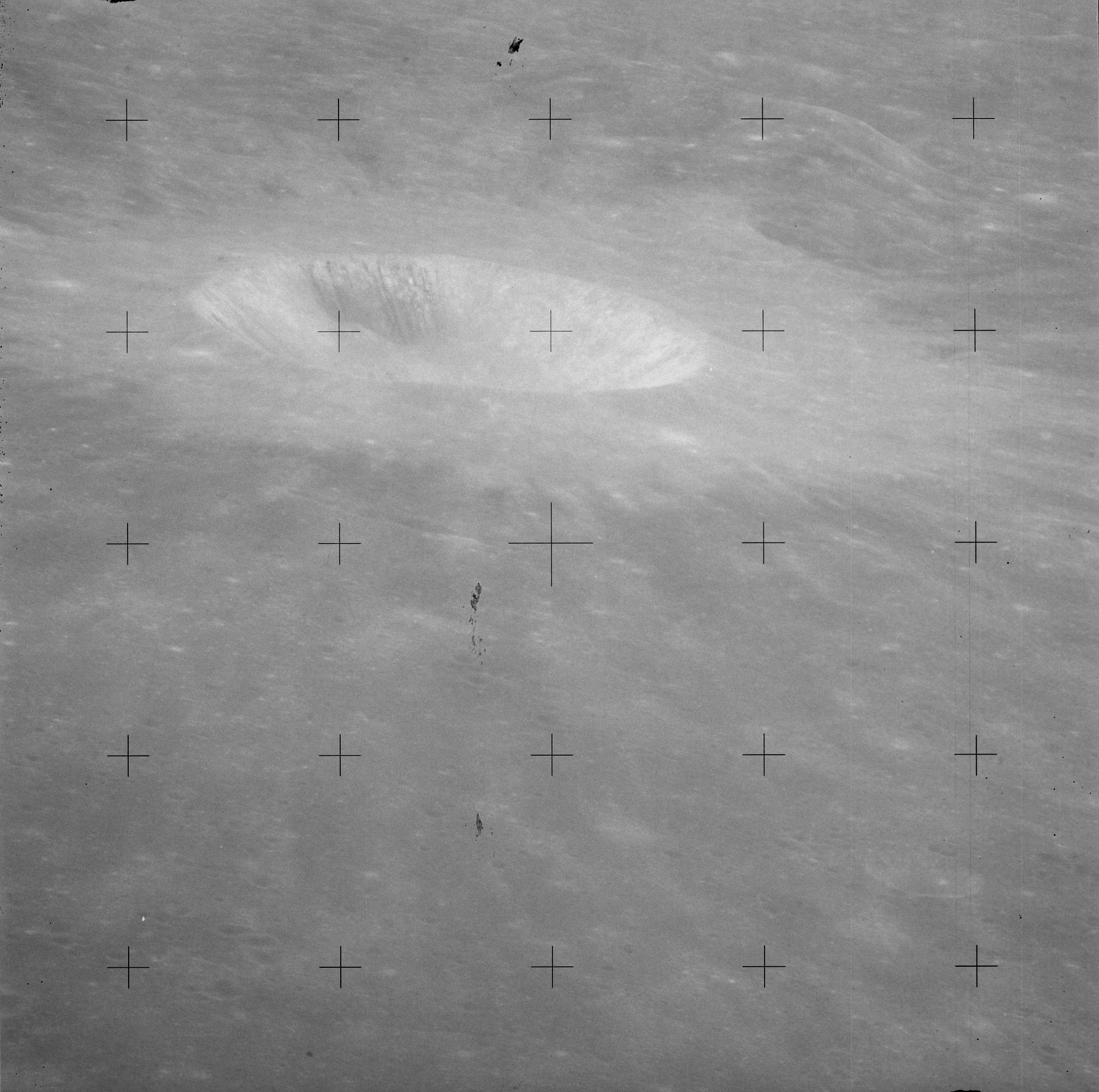 Oblique view of Dionysius crater. The brightness and contrast have been altered from the original.